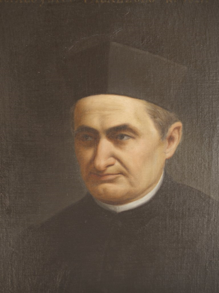 Luigi Palazzolo (1827-1886), Italian catholic priest, founder of an institute for poor girls, beatified